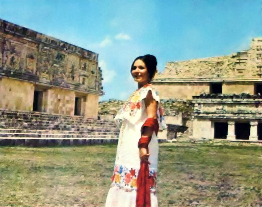 Photograph of Mexican singer and actress Flor Silvestre on location in Uxmal, Yucatán, for the film Peregrina.